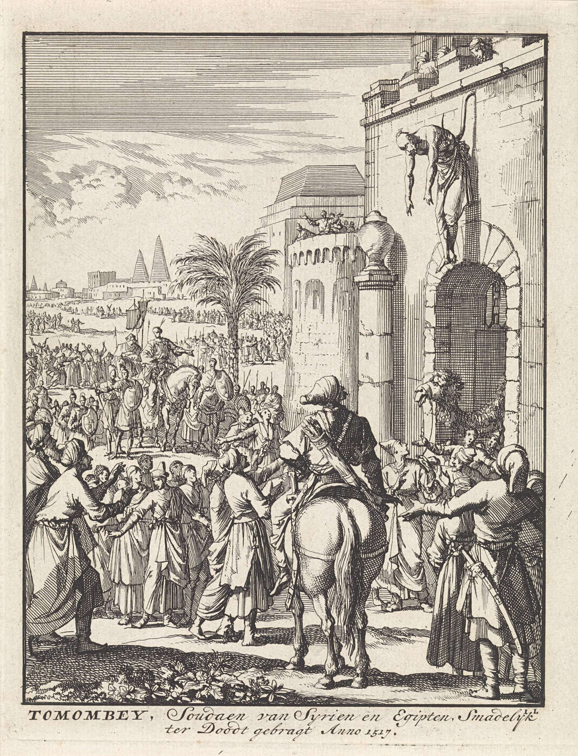 Tomombey, Soudaen van Syrien en Egipten, Smadelyk ter Doodt gebragt Anno 1517 (title on object) Amsterdam